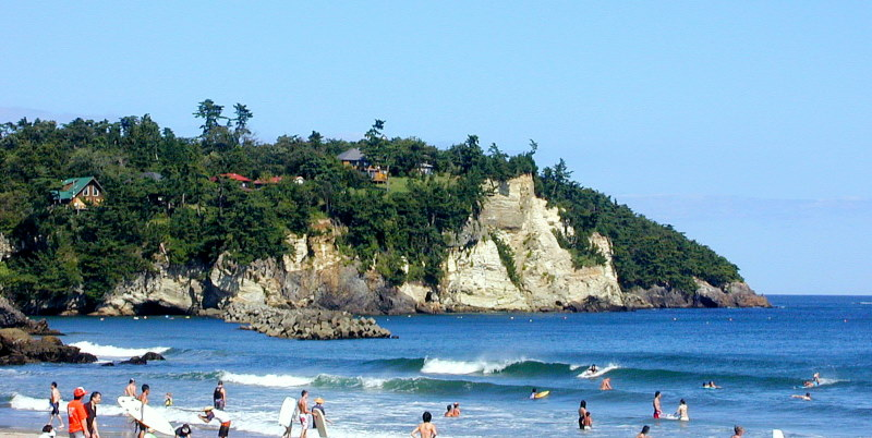 Takayama Summer Resort for foreign missionaries or Takayama International Village is located in Shichigahama, Miyagi, Japan.